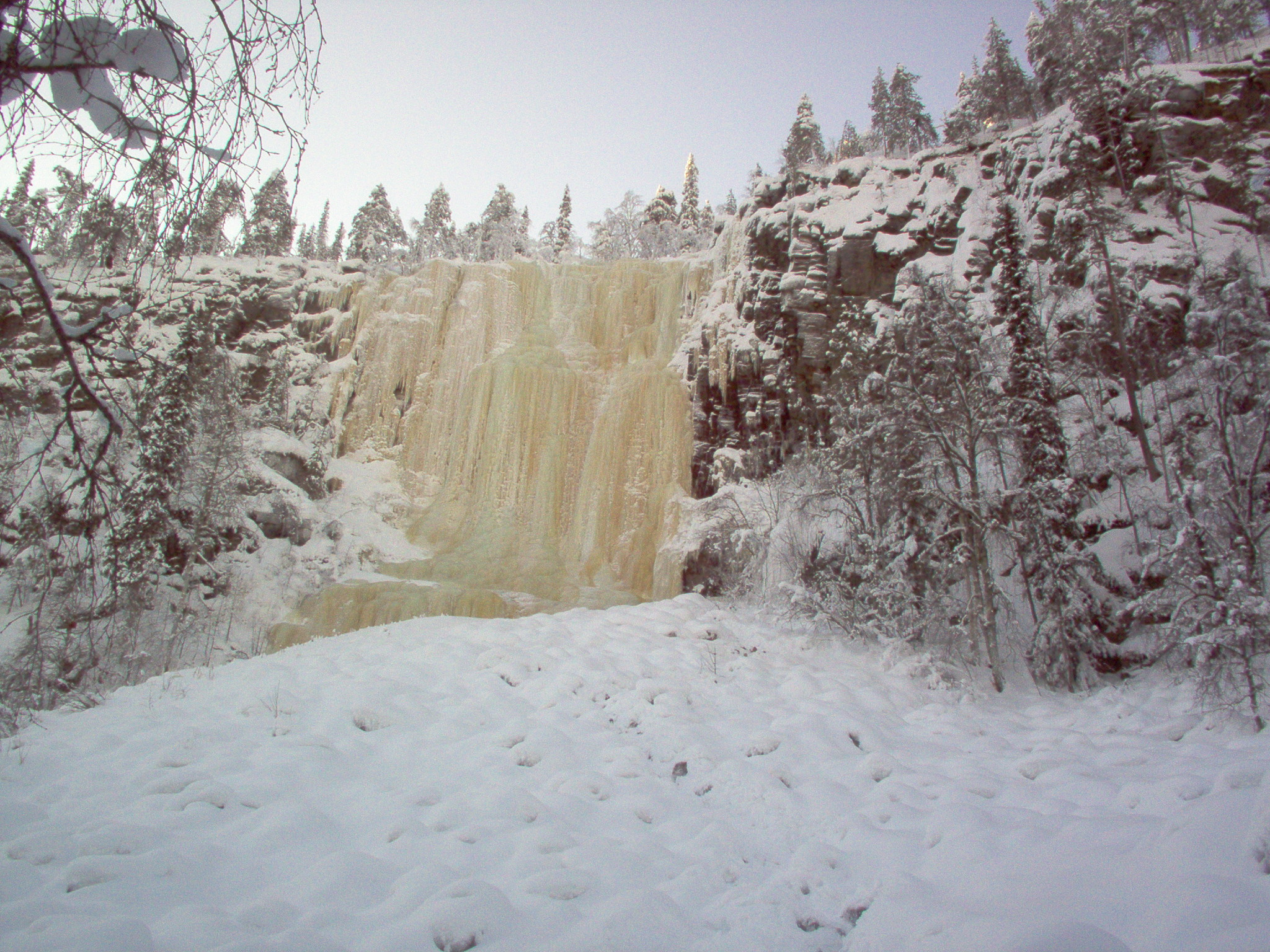 Icewall at Korouoma in Posio, Finland.